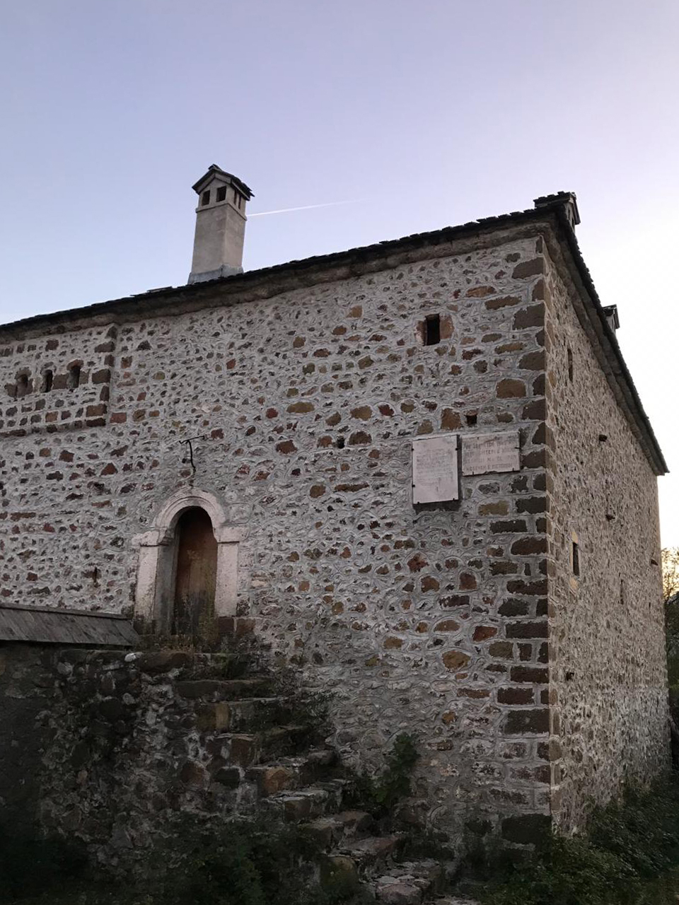 Photo realized during the expedition tour for the project The Albanian house